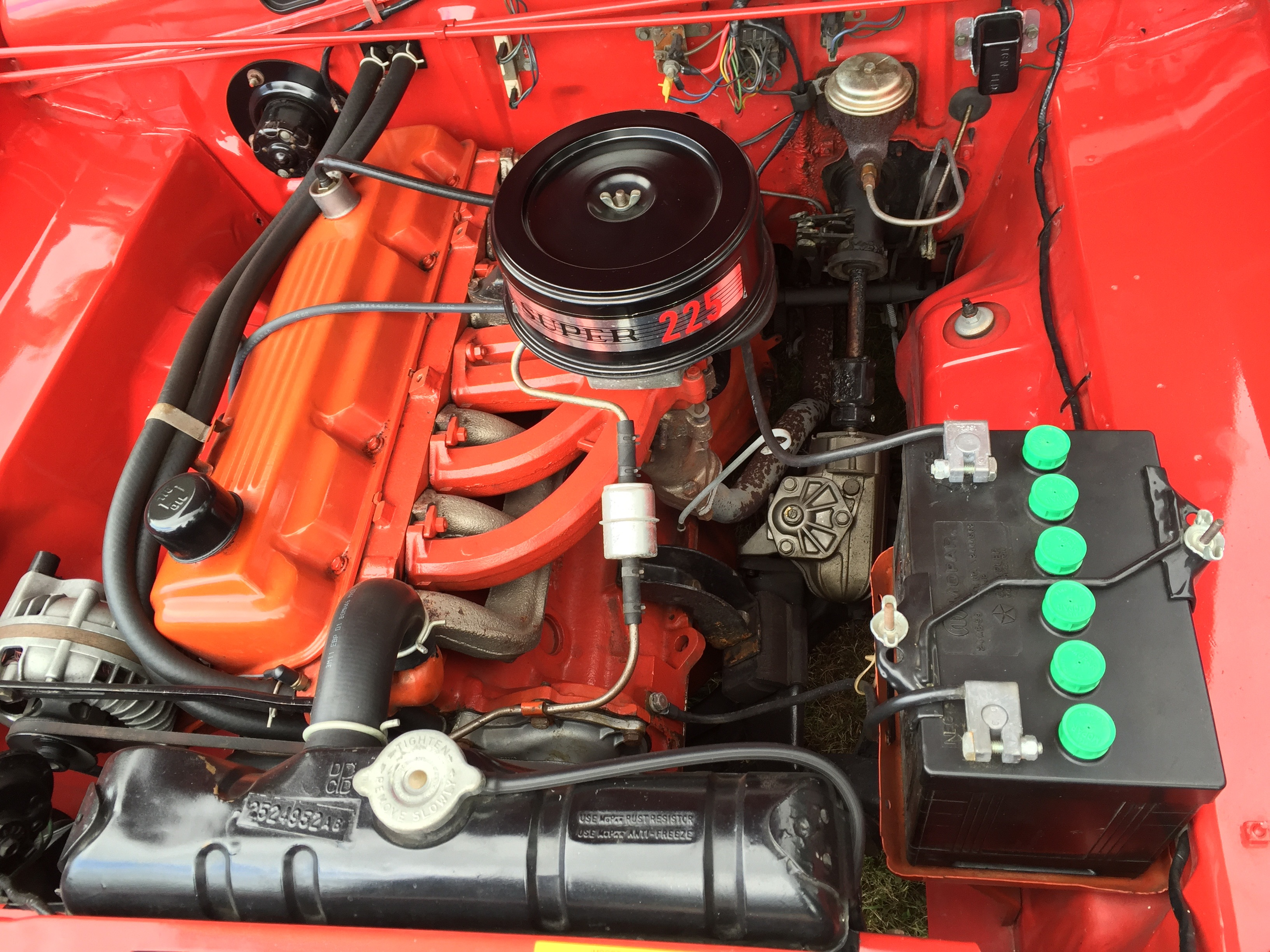 1965 Plymouth Barracuda, an economical compact-sized fastback in the pony car class. Powered by the "Super 225" slant six-cylinder engine (3.7 L). This car is in "factory-original" condition that that has not been modified, customized, or butchered. Note that the center of the horn ring has a Valiant emblem, the automobile platform (Chrysler A-body) on which the Barracuda was based. The floor mats are aftermarket accessories. Picture taken during the 2015 Rockville Antique and Classic Car Show in Maryland.